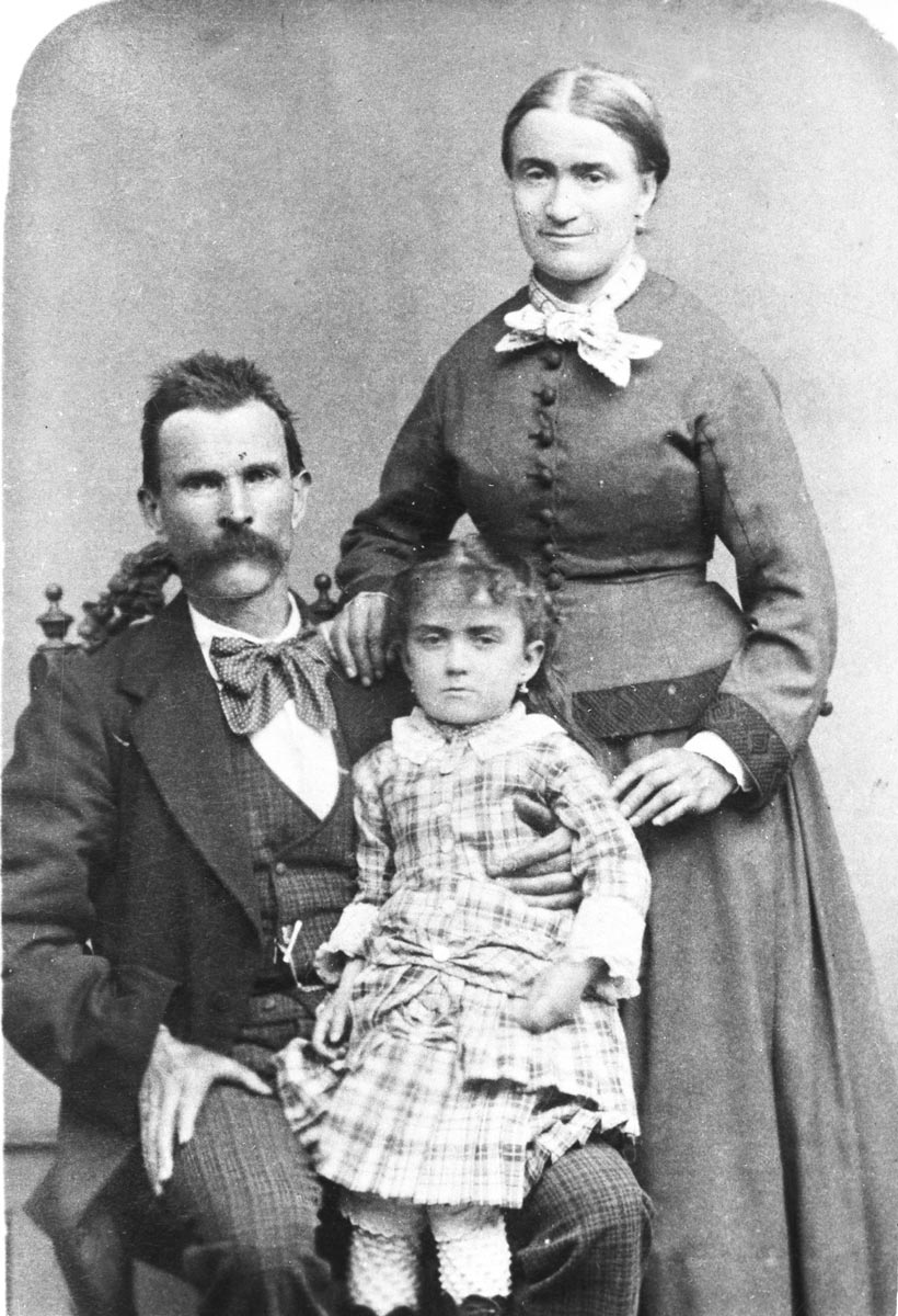 Facteur Ferdinand Cheval